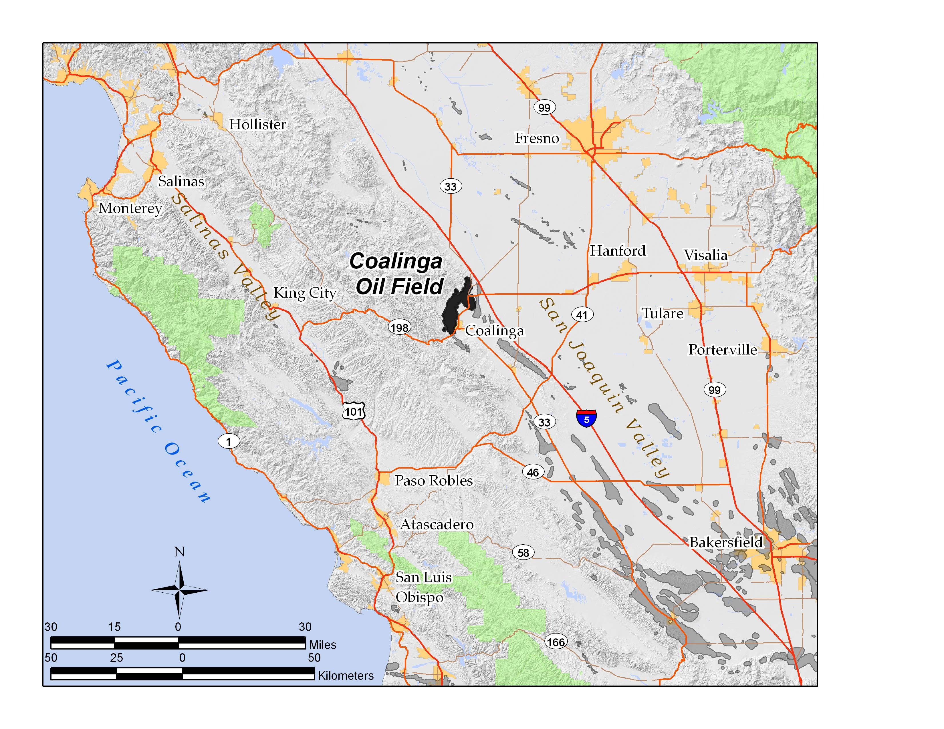 Location of Coalinga Oil Field in Fresno County, California. Map made by User:Antandrus in ArcGIS 9.2. All data shown on this map is in the public domain. Sources include USGS National Elevation Dataset; highways and urban areas from the Census 2000 TIGER files; federal lands from US Dept of the Interior; oil field boundaries from California Dept of Conservation, Division of Oil, Gas, and Geothermal Resources (DOGGR).